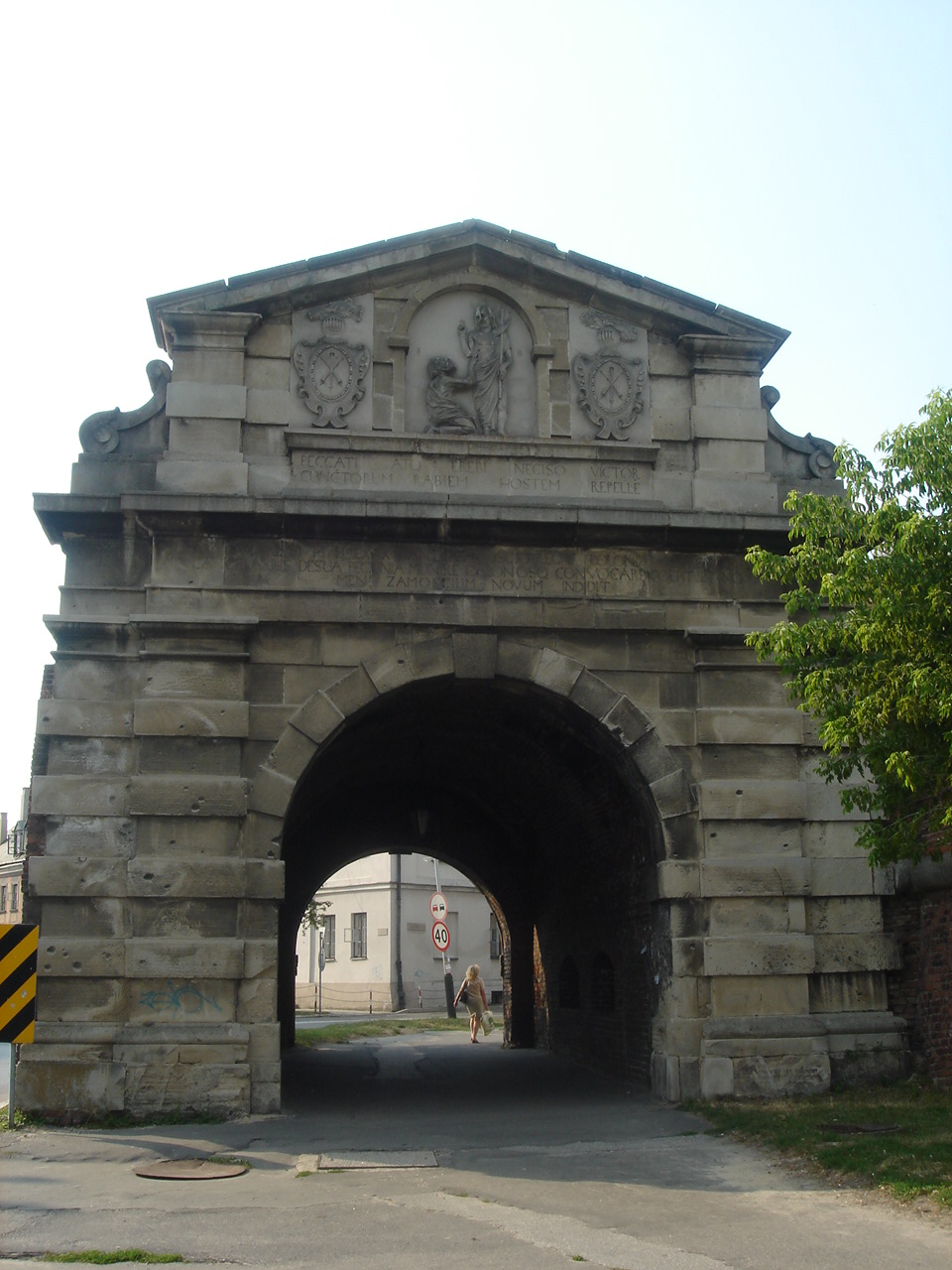 The Old Lwowska Gate in Zamość